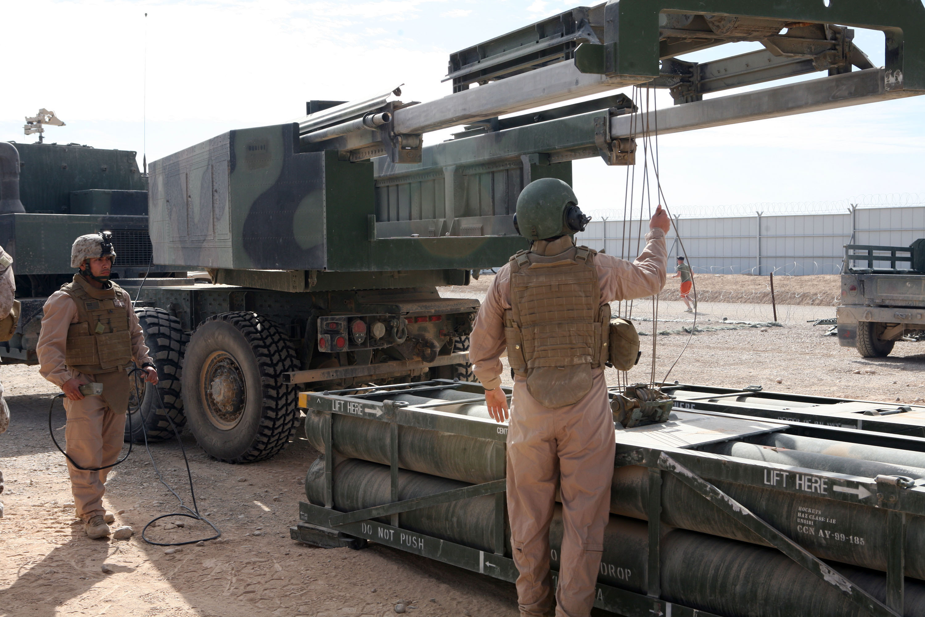 Sgt. Larry N. Akin (right) pulls slack from the winch of the rocket launcher component of a High Mobility Artillery Rocket System as Cpl. Luis A. Cardenas raises the pod before a test fire at Camp Barber, Islamic Republic of Afghanistan, Feb. 15. The HIMARS is a mobile rocket system used by Battery D, 2nd Battalion, 14th Marine Regiment, a reserve battery based in El Paso, Texas. The battery is here to support Special Purpose Marine Air Ground Task Force - Afghanistan as a fire support asset. SPMAGTF-A's mission is to conduct counterinsurgency operations, and train and mentor the Afghan national police, while setting the conditions for the Afghan security forces to grow, gain effectiveness and succeed against the enemy. Akin and Cardenas are launcher chiefs assigned to Btry. D's first platoon.